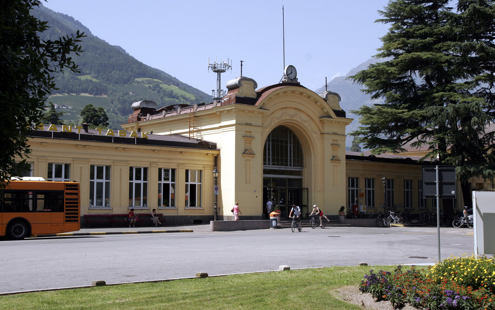 Railway sation of Meran (South Tyrol)